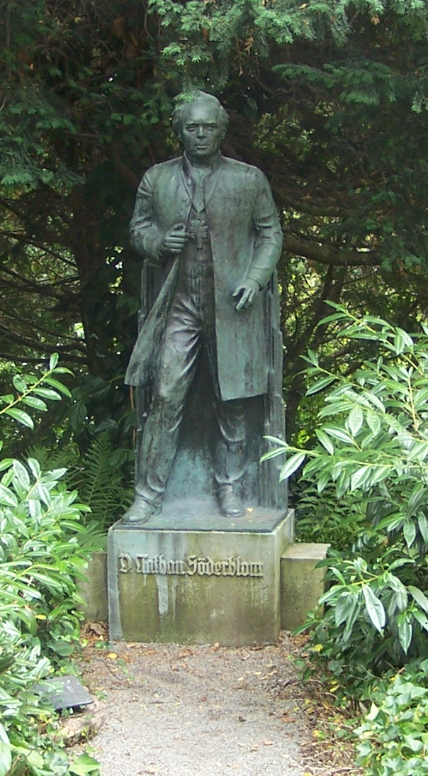 The Soederblom monument in Eisenach, Hainstein.